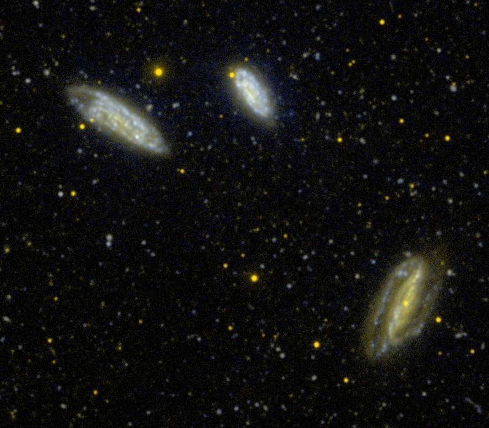 NGC 7582 (right), NGC 7590 (middle-top), NGC 7599 (left) galaxies by GALEX